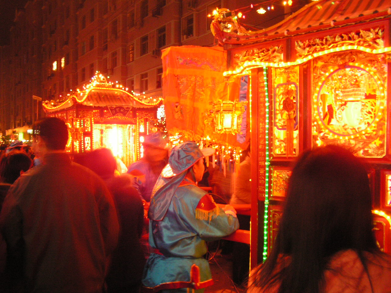 Lantern Festival Taoist parade of gods (Ngiàng-sìng) in Luoyuan, Fuzhou of China